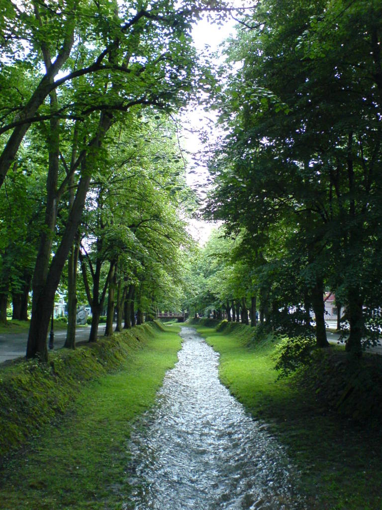 Vrnjačka reka river in Vrnjačka Banja